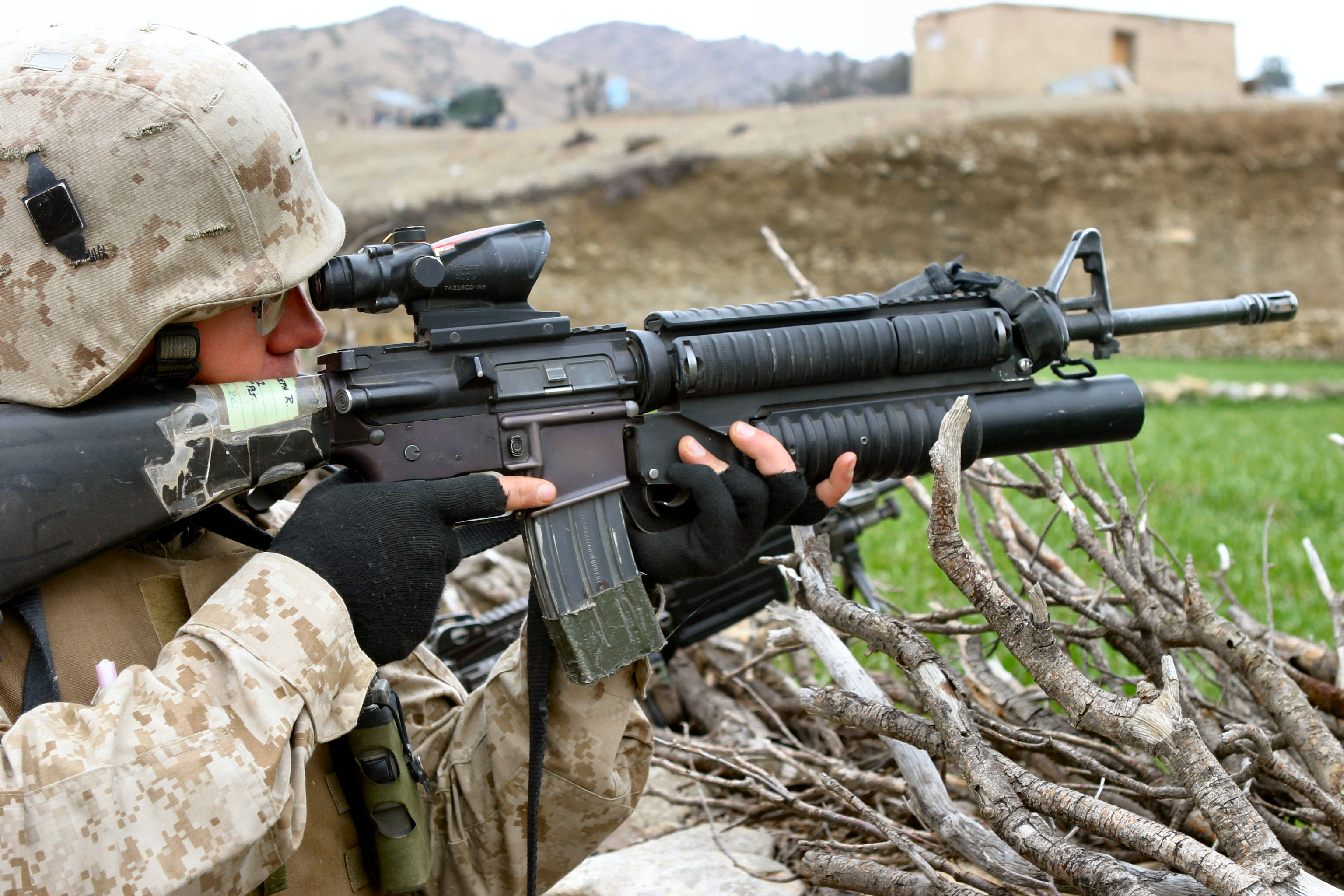 KHOWST PROVINCE, Afghanistan (March 9, 2005) - Cpl. Joseph Wolfe, a rifleman with Weapons Company, 3rd Battalion, 3rd Marine Regiment, aims his M203 toward an area where shots were fired, during a security operation in Khowst Province, Afghanistan, March 9. The Marines are conducting security and stabilization operations in support of Operation Enduring Freedom. U.S. Marine Corps photo by Cpl. James L. Yarboro.